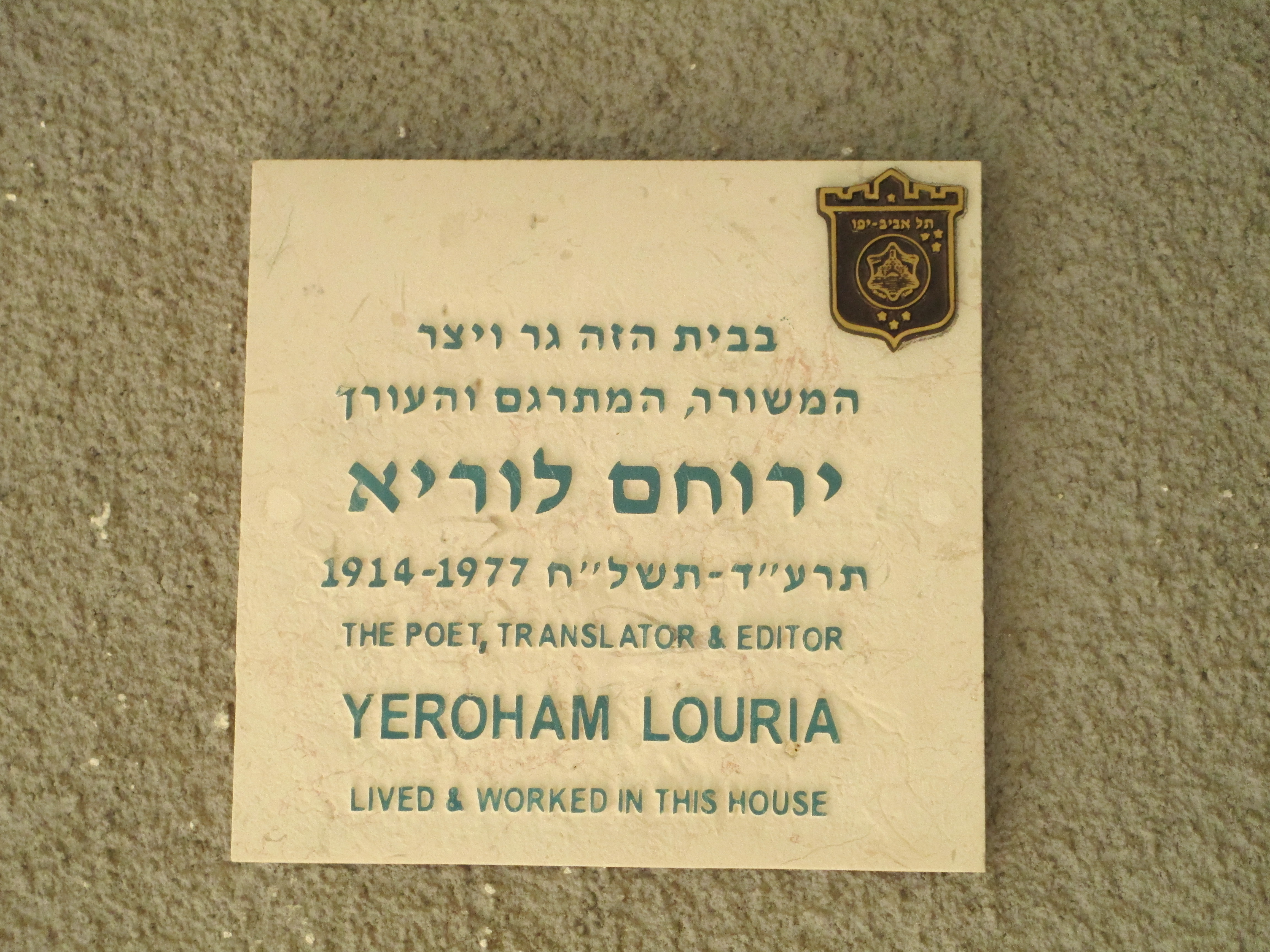 memorial plaque on yeroham louria house in tel aviv לוחית זיכרון על ביתו של המשורר ירוחם לוריא ברח' ביל"ו 51 בתל אביב